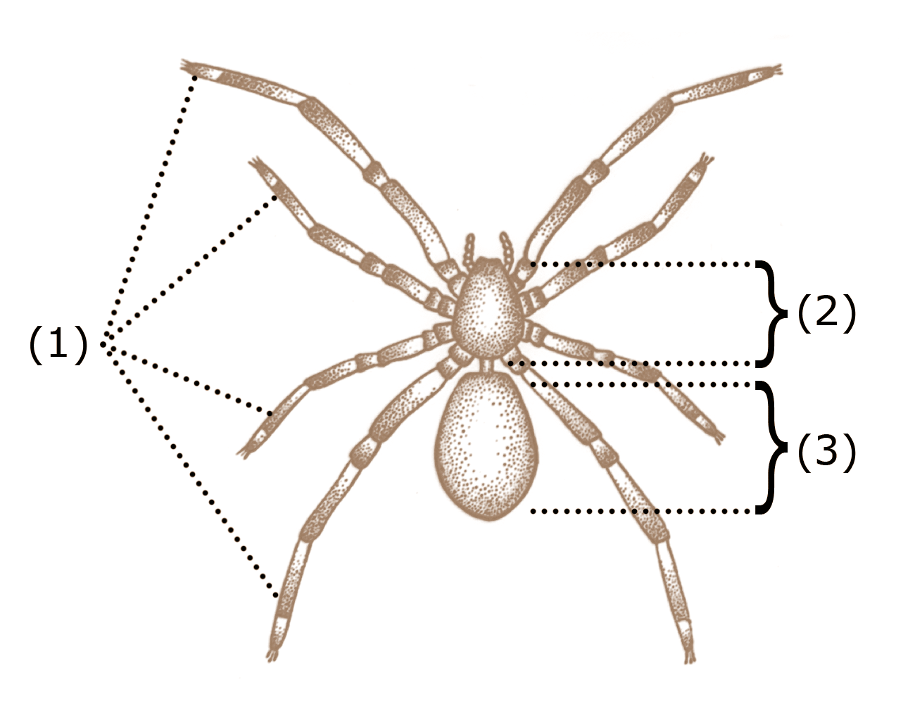 Identifying characteristics of the order Araneae (whose members include spiders): 4 pairs of legs cephalothorax abdomen